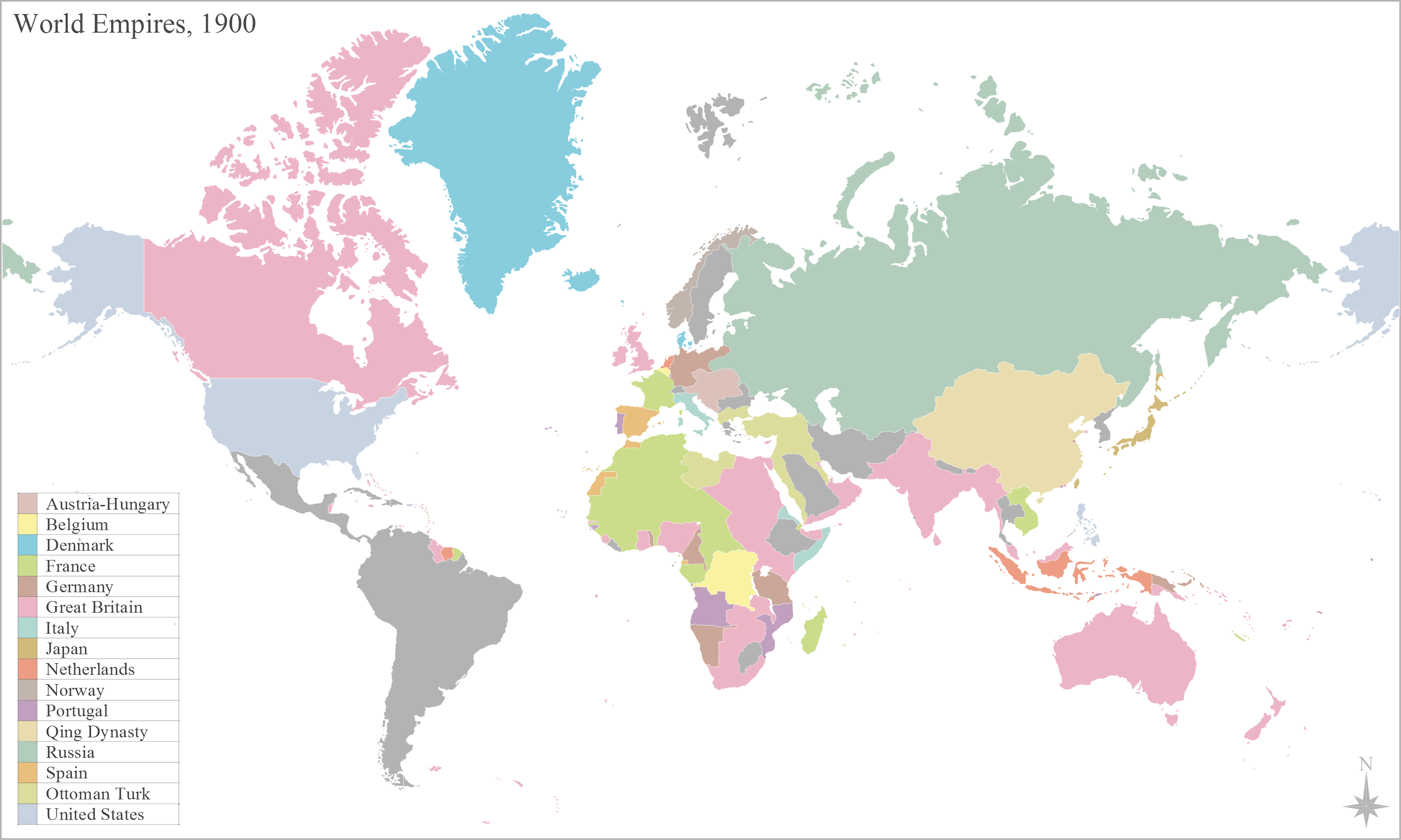 Map of the worlds empires, during 1900